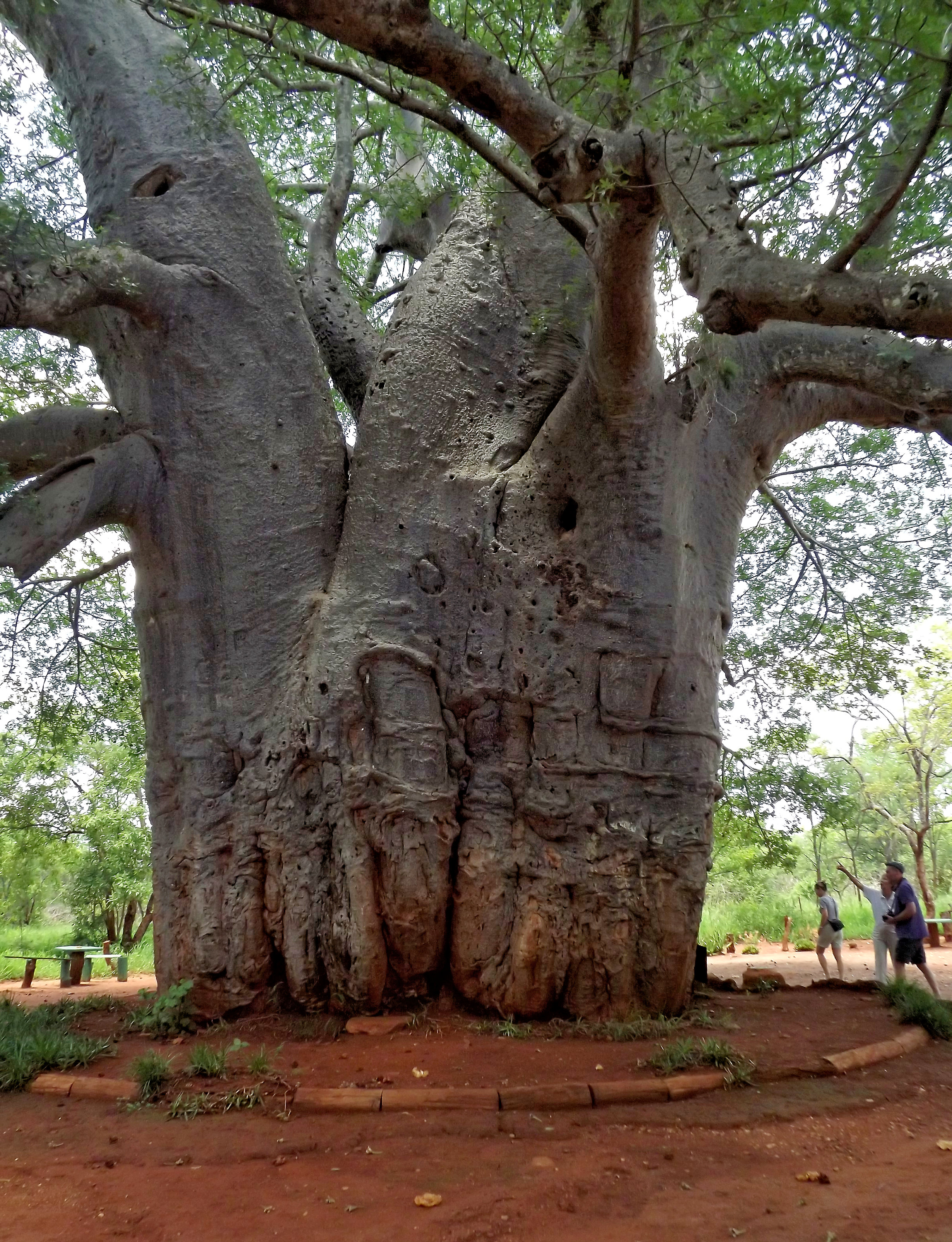 This Giant Boabab (Adansonia digitata) near Gravelotte and Leydsdorp in Limpopo Province, South Africa served as a bar for gold miners in times gone by. Today it is a tourist attraction.